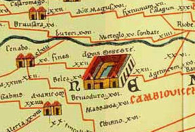 Aquis Segeste : a derivative work of File:TabulaPeutingeriana.jpg